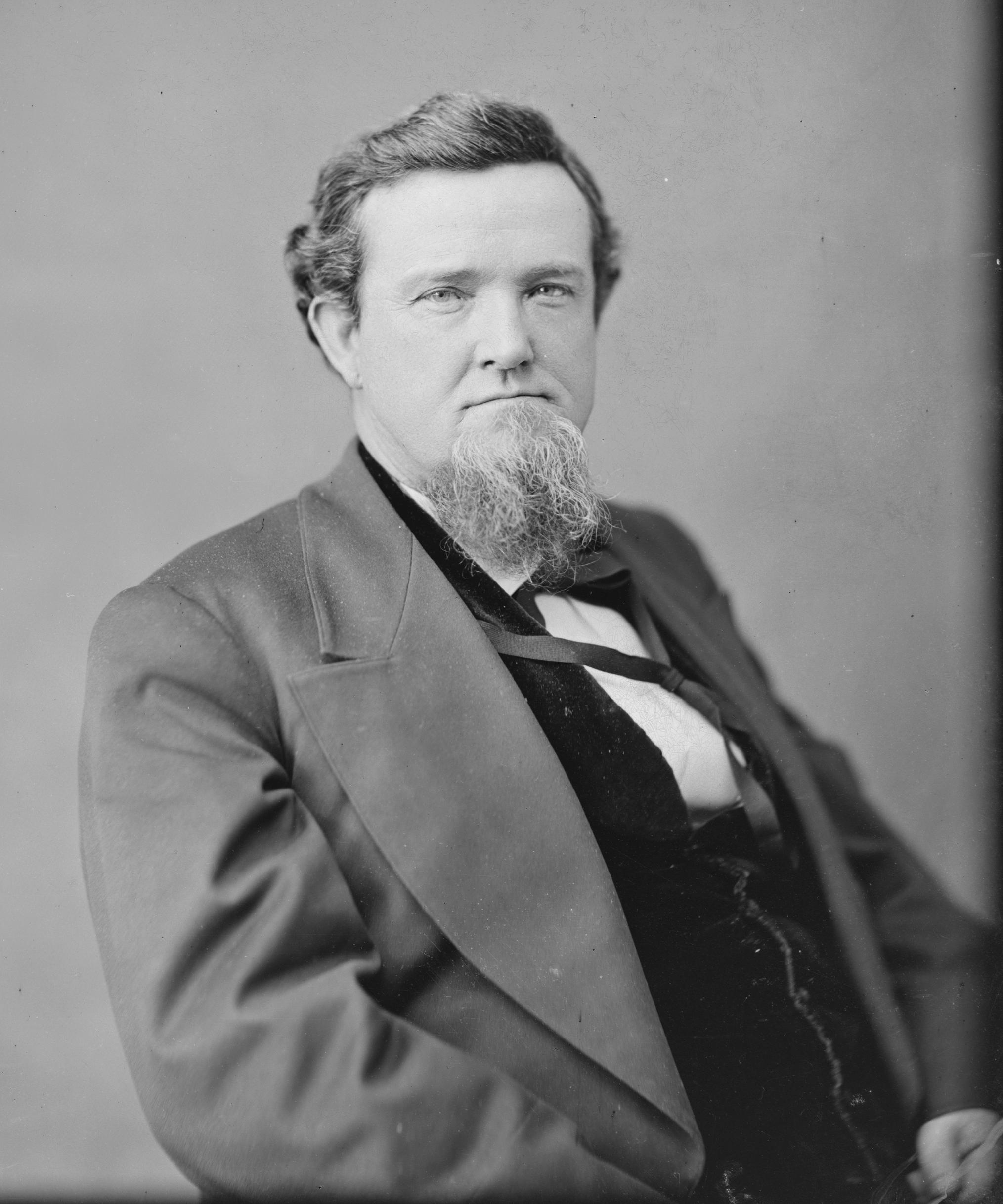 Alfred Moore Scales. Library of Congress description: "Hon. Alfred Moore Scales of N.C. C.S.A. General"